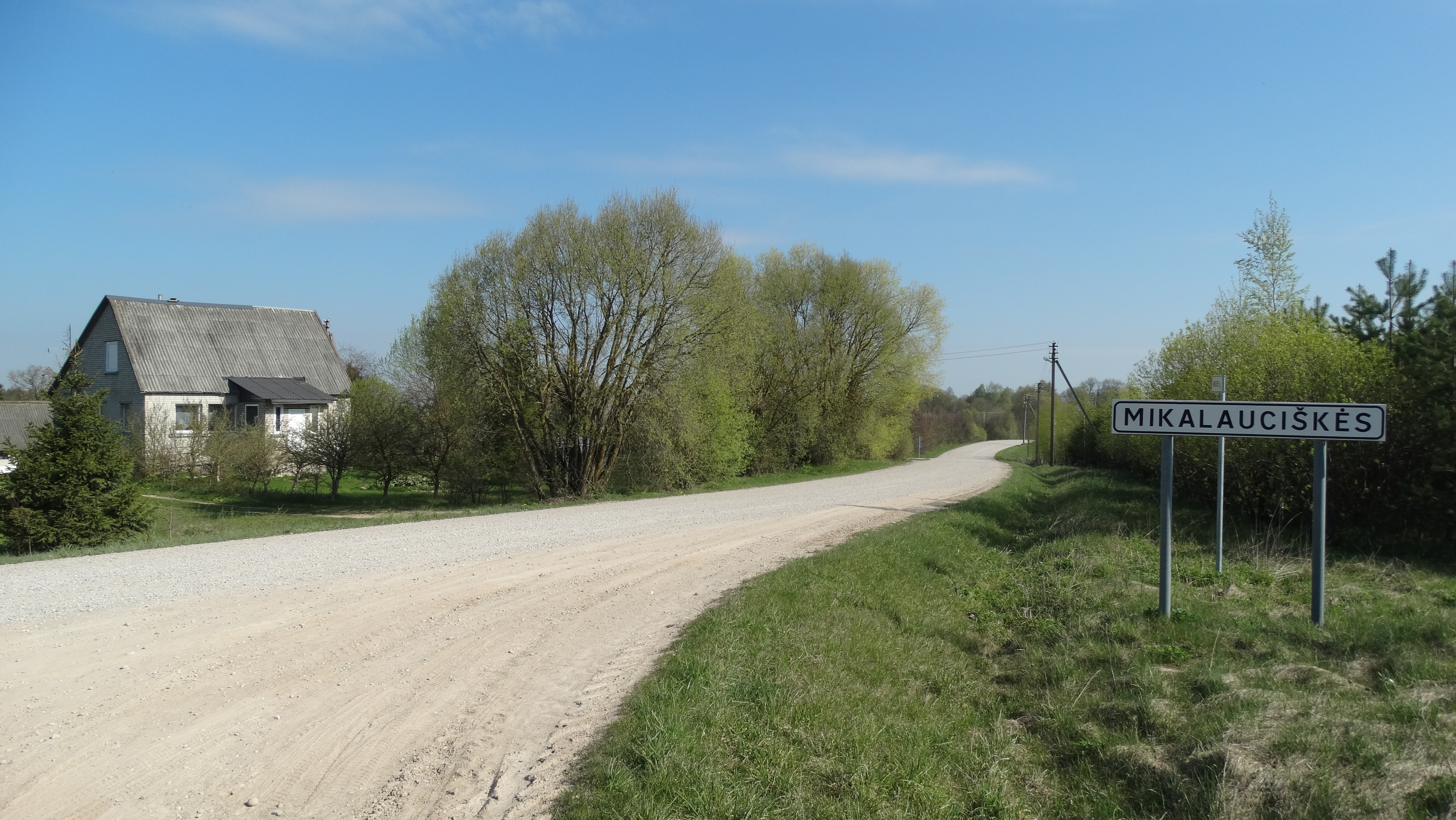 Mikalaučiškės, Kaišiadorys District, Lithuania